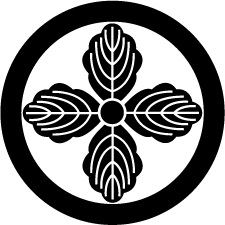 Yotsukashiwa with enclosing circle